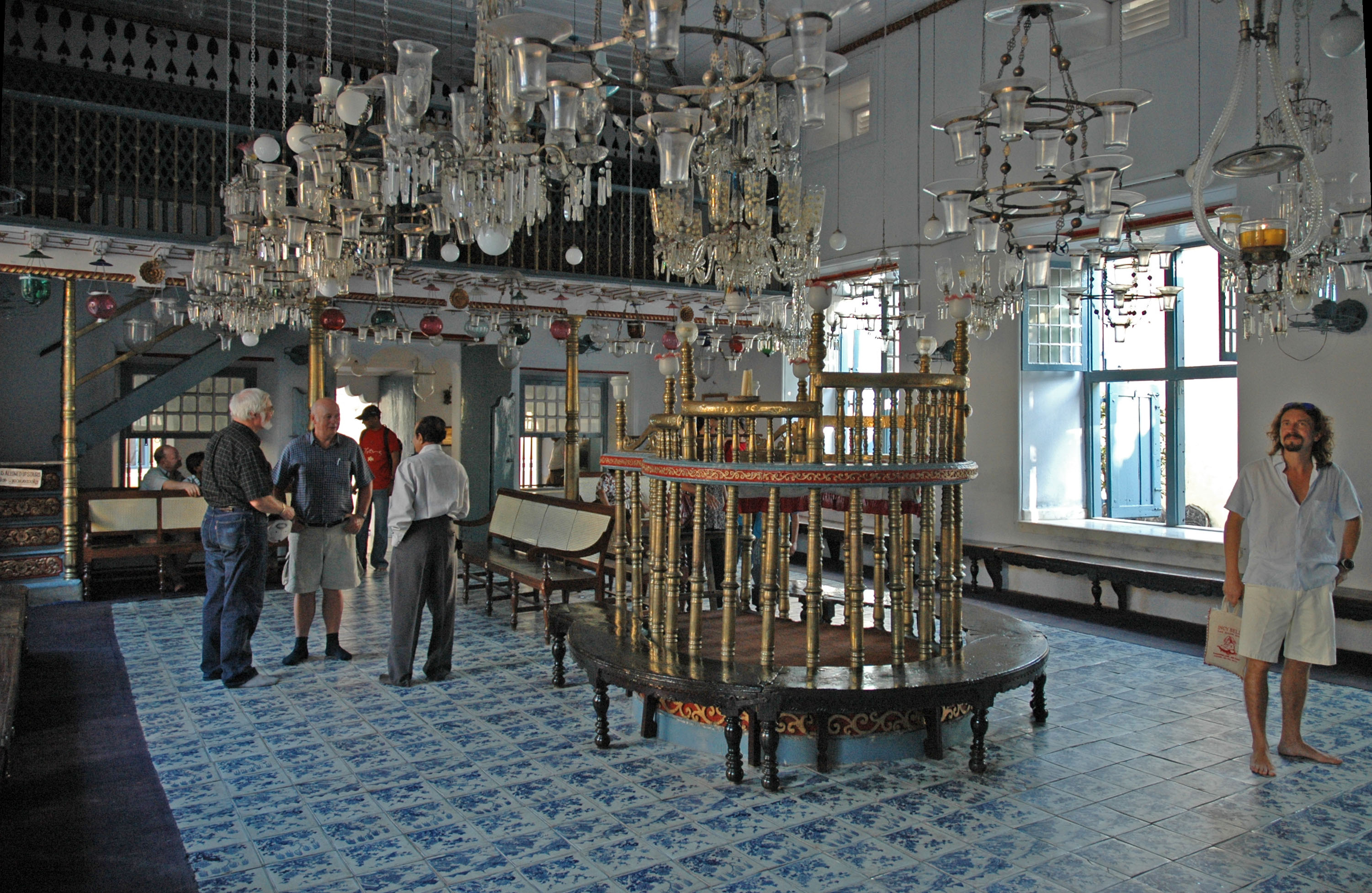 Inside paradesi (white jews of Kochi) Jewish Synagogue. Other photo's